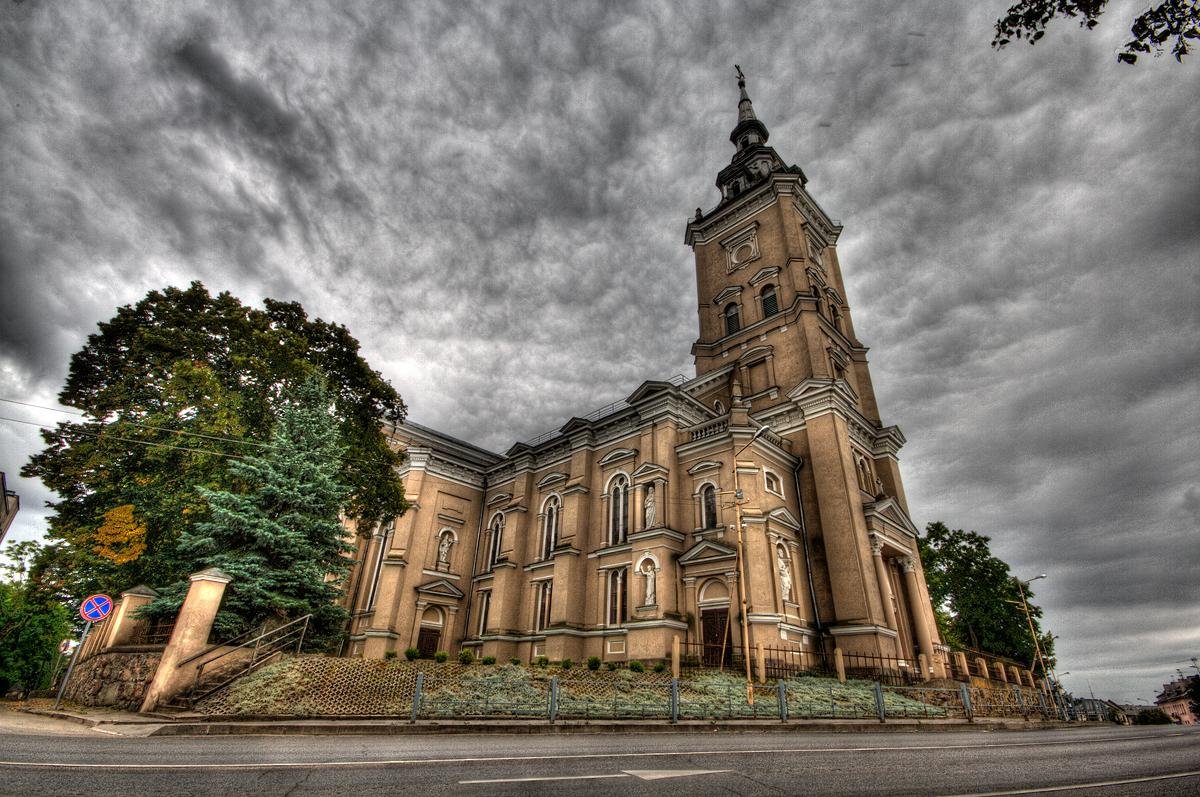 Church of the Assumption of the Virgin Mary, Joniškis